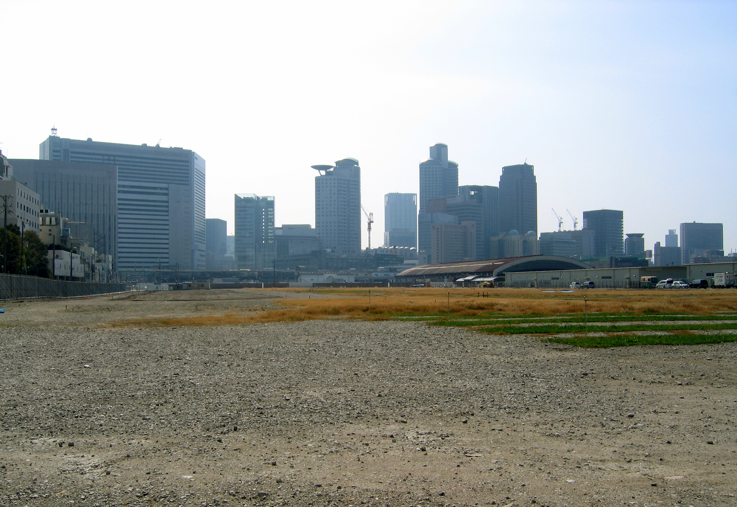 This photograph is Osaka Station north district. The details about contents of this image please read "大阪駅北地区".